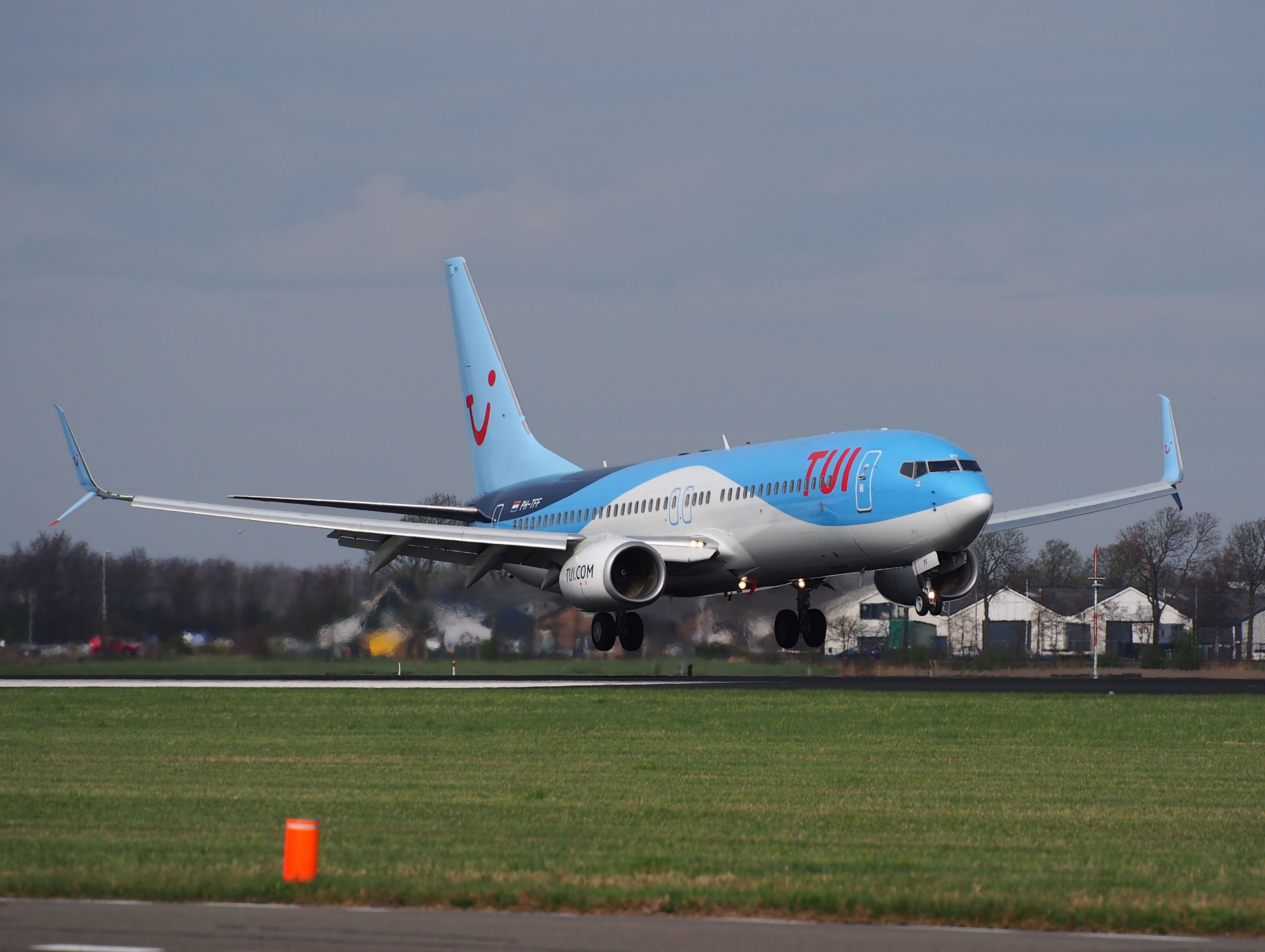 Photo taken at Schiphol (AMS - EHAM), The Netherlands.